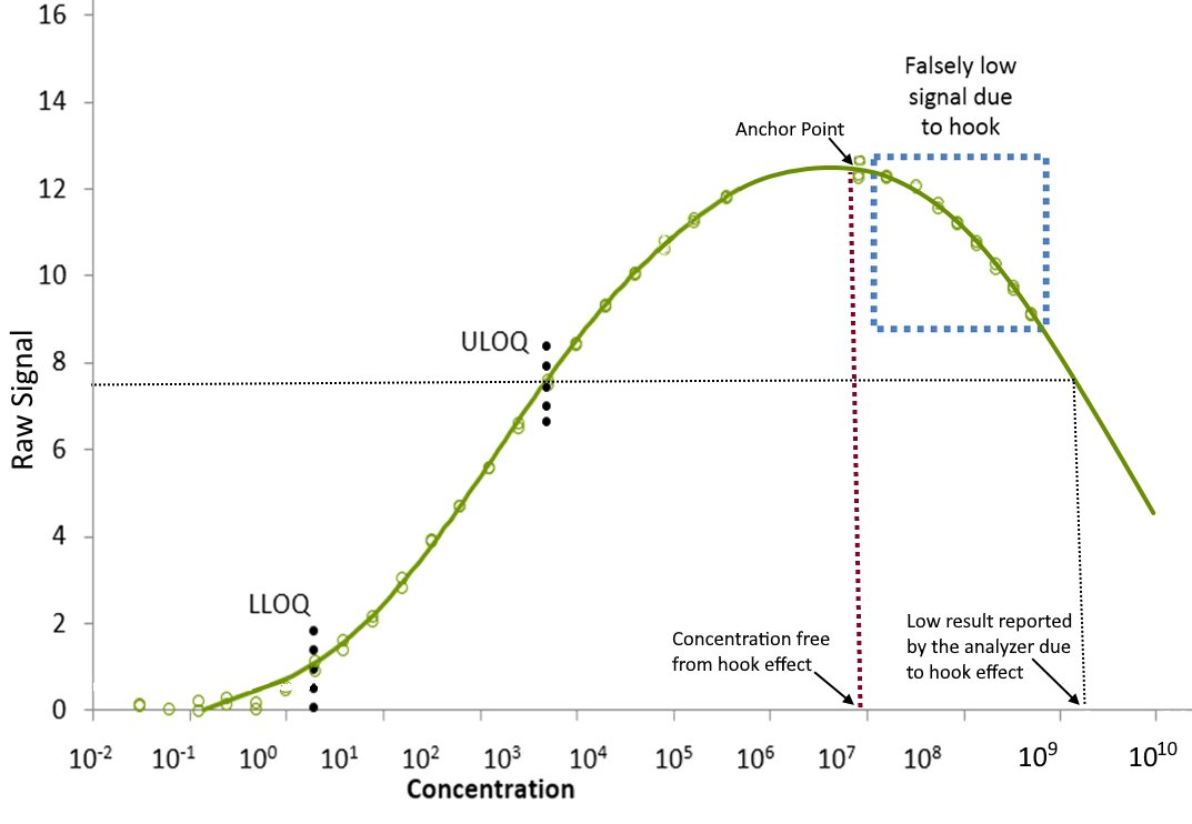 typical Hook effect illustration